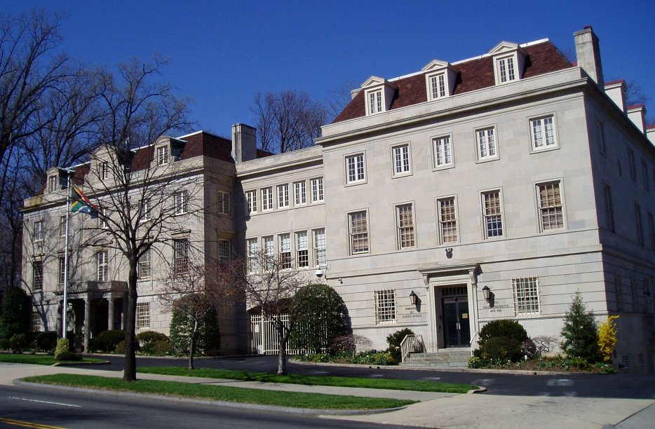 Embassy of South Africa, Washington, D.C.